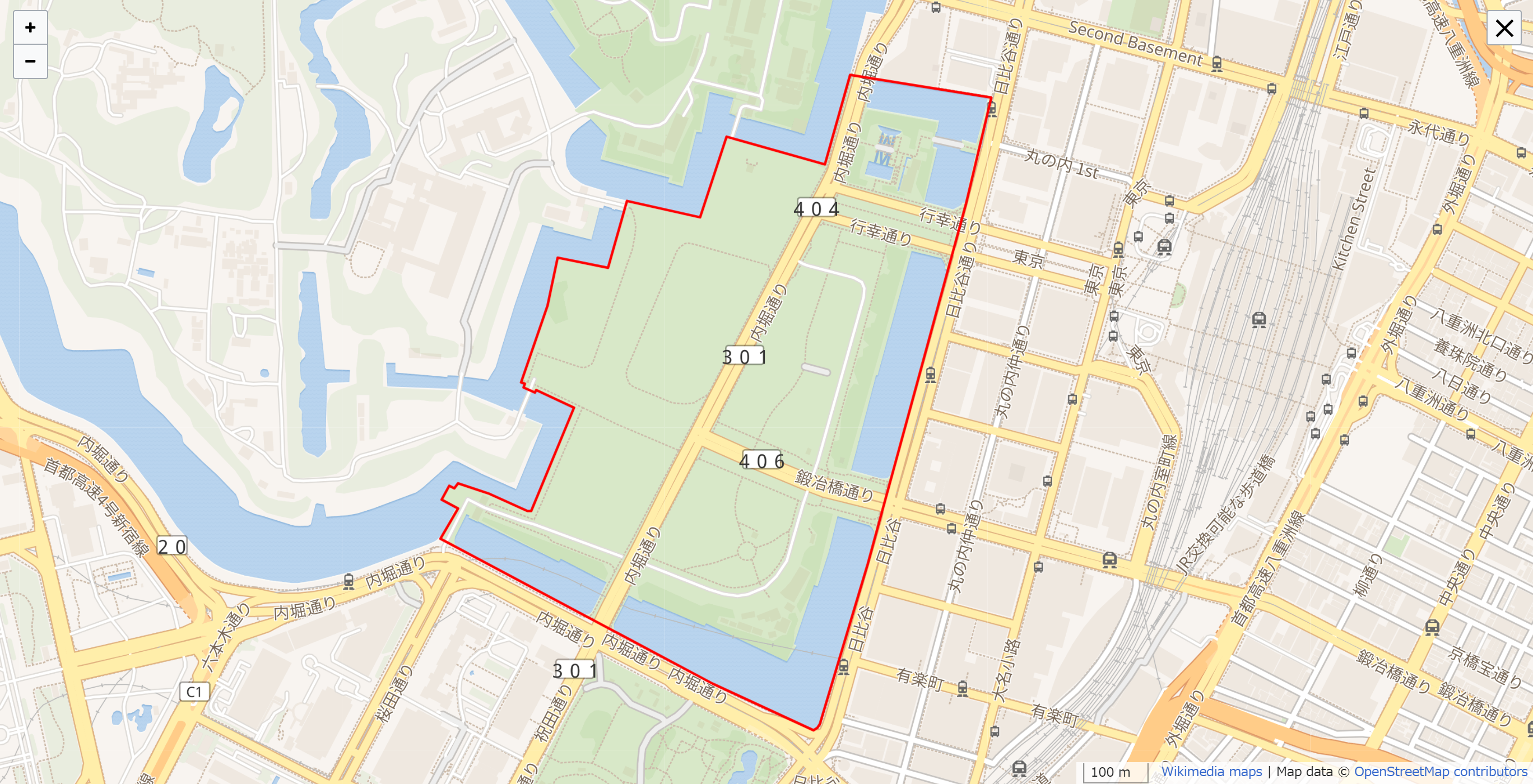 Screenshot of map found at the below websiteː It shows the area of Kokyo Gaien National Garden in Tokyo, Japan.